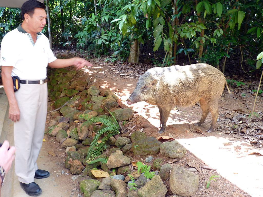 Tame wild boar on Pulau Ubin and its keeper.